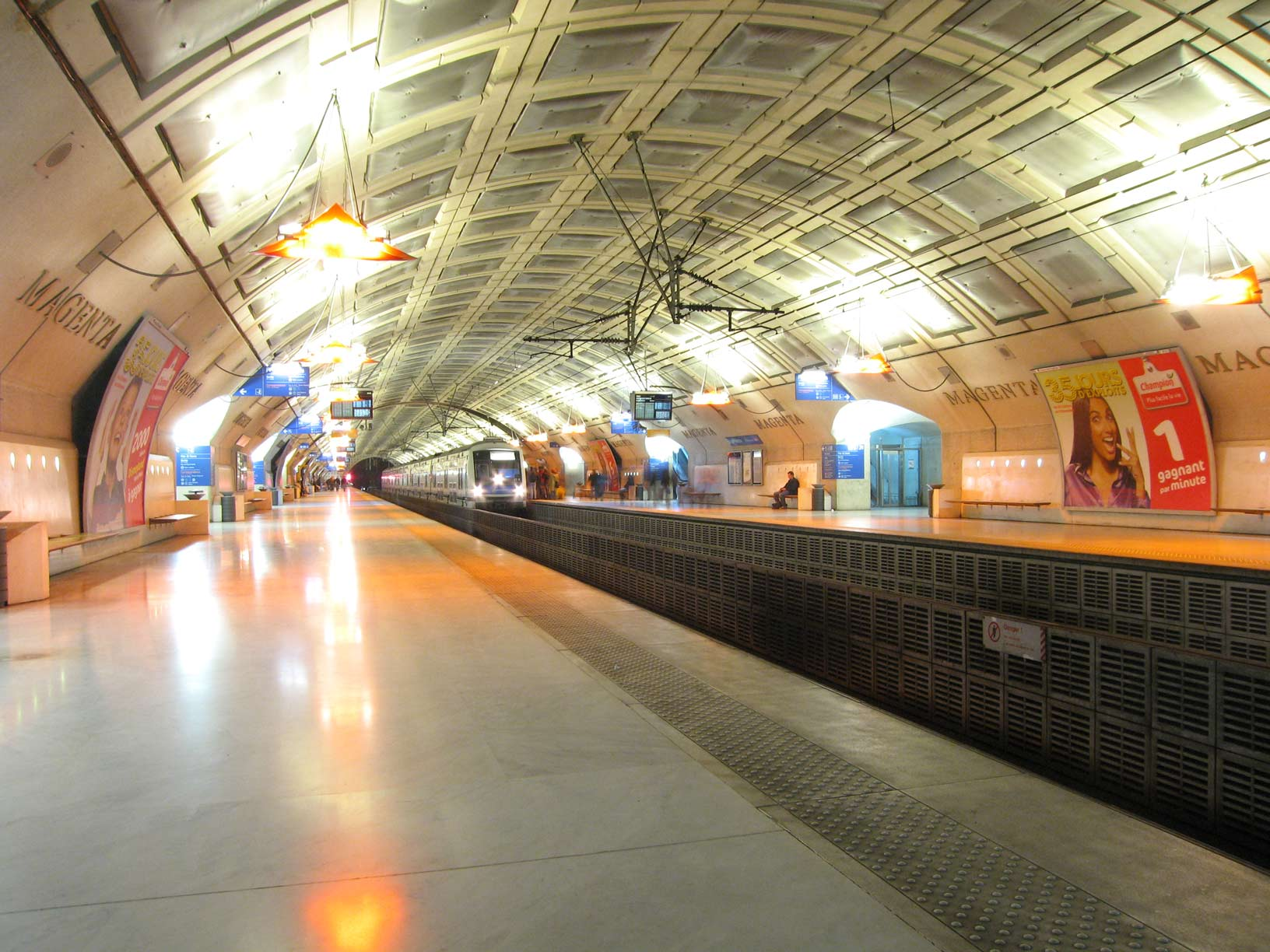 RER line E , Magenta Station, Paris, France